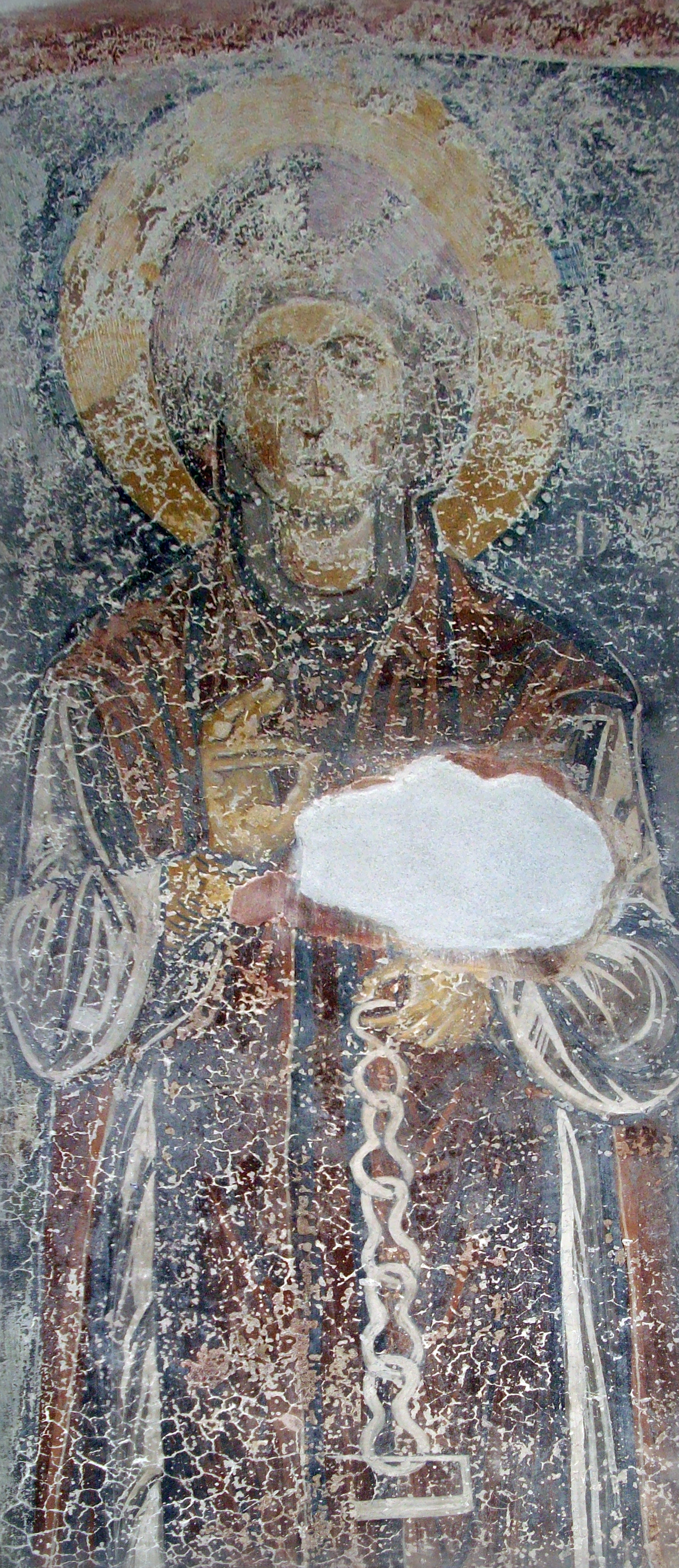 Fresco in Santa Maria de Lama at Salerno (Italy).